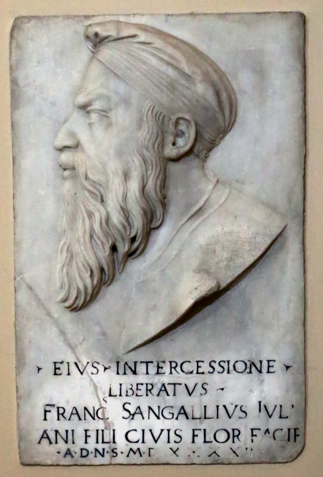 Santa Maria Primerana (Fiesole)